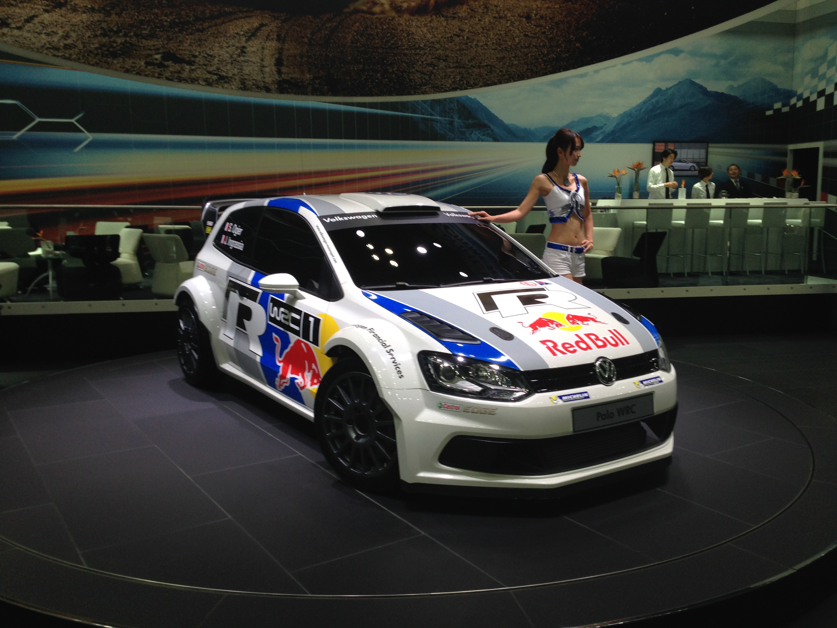 Volkswagen Polo R WRC 2013 photographed at the Tokyo Motor Show 2013.